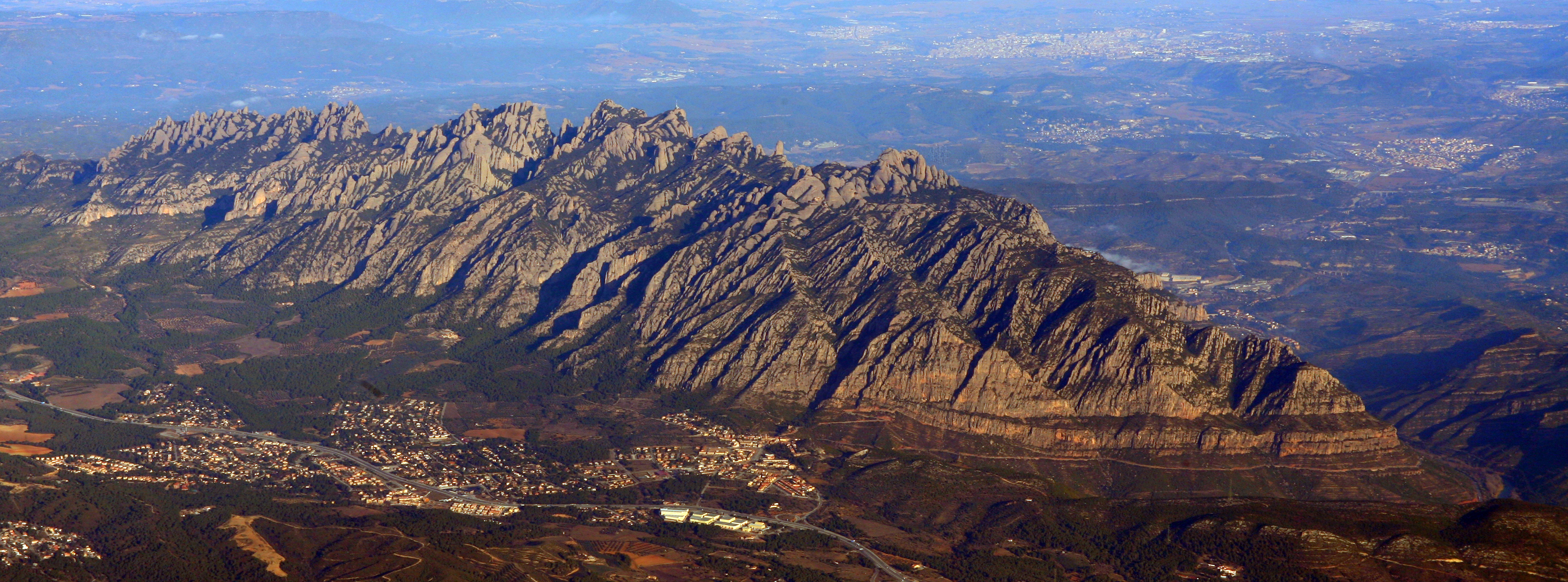 Montserrat, which means "serrated mountain" in Catalan, in Catalonia, not far west of Barcelona.